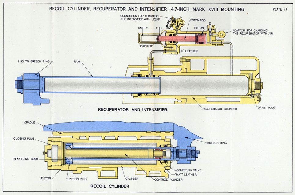 Diagrams showing recoil cylinder, recuperator and intensifier, of CP Mk XVIII mounting for British QF 4-inch Mk IX naval gun.